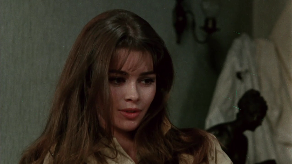 Still of Astrid Heeren from Silent Night, Bloody Night